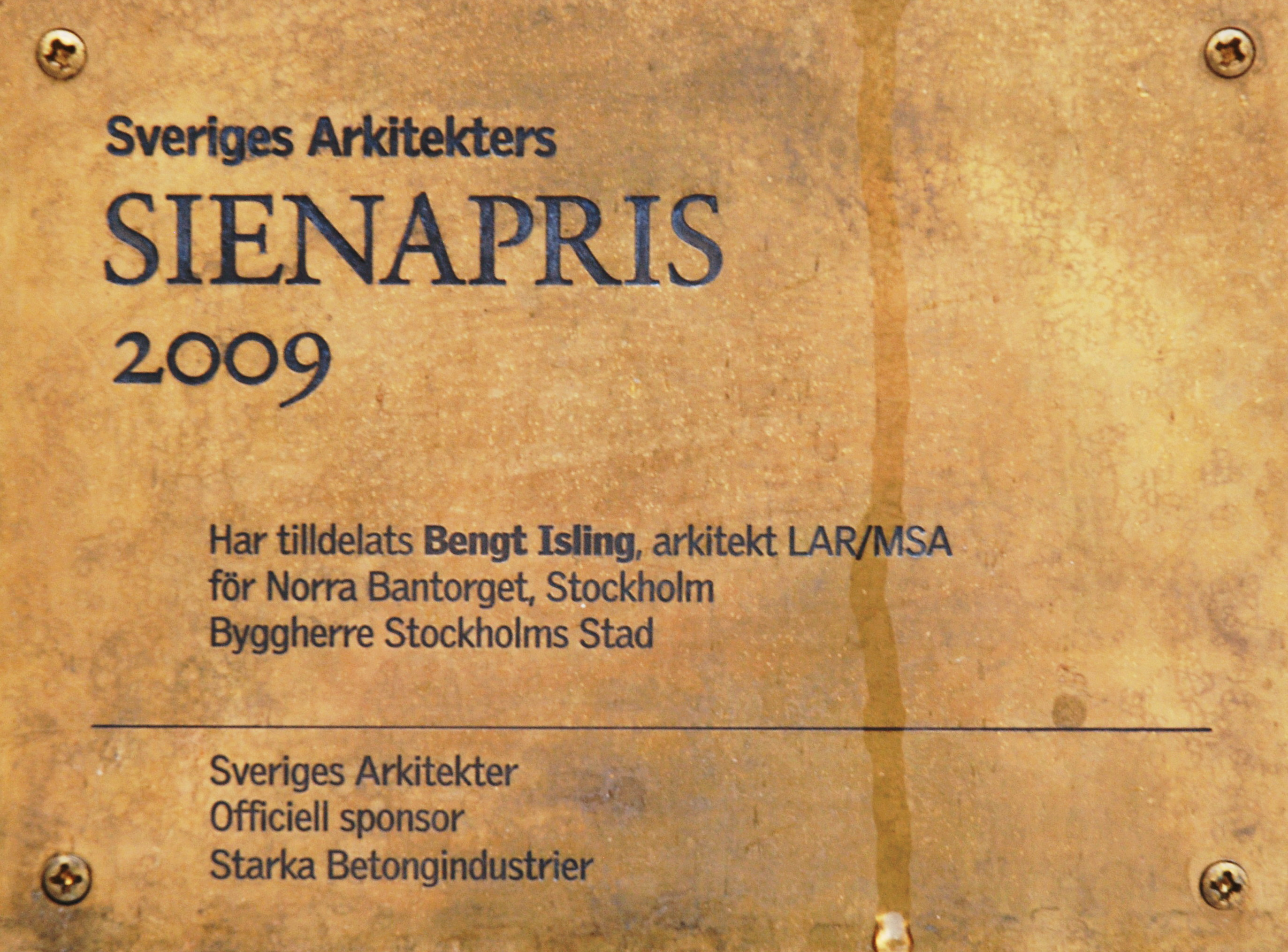 Bronzze plate for the winner of the Swedish Siena Prize 2009 (Norra Bantorget, Stocckholm)